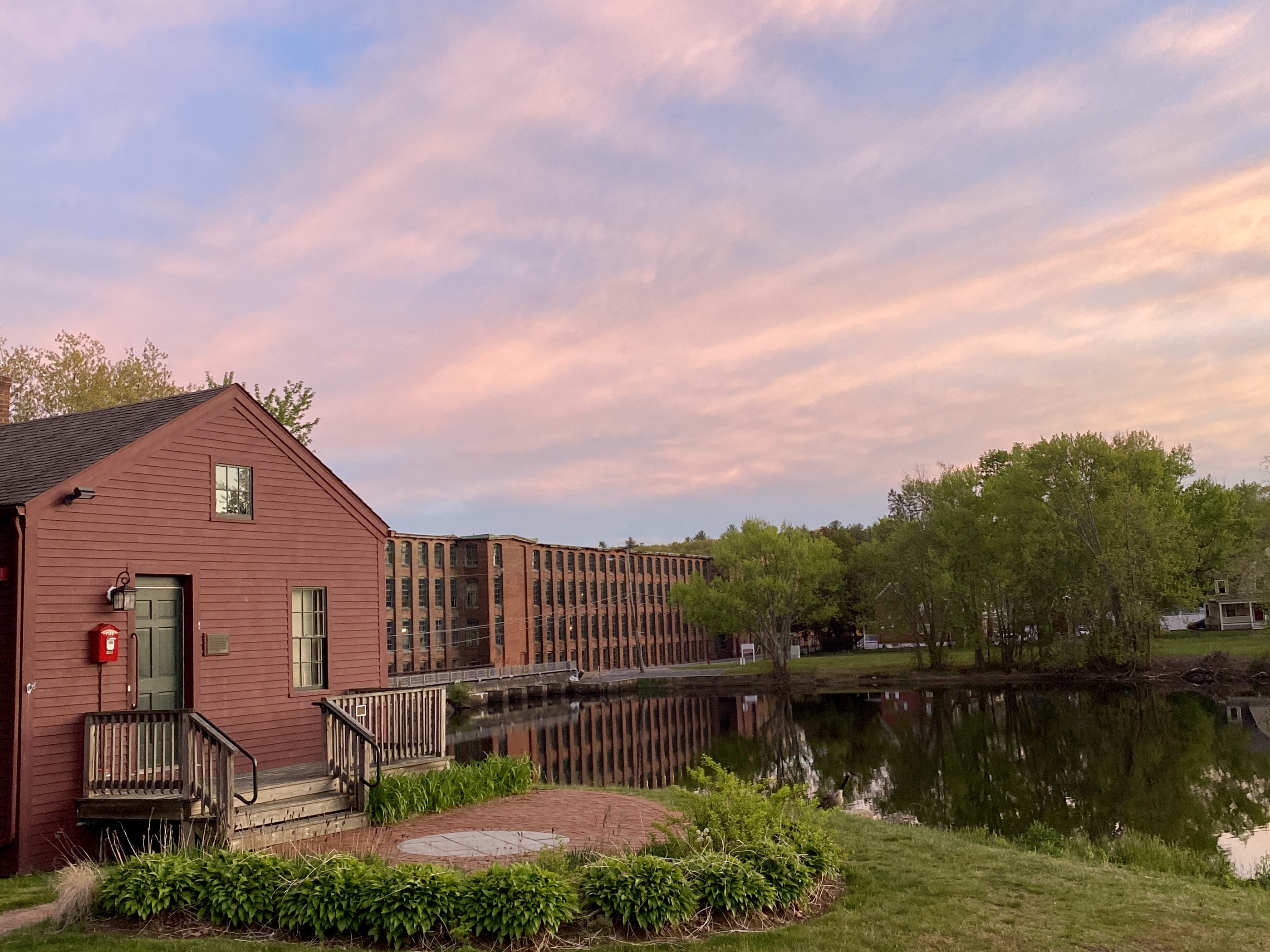 A view of the Little Red Shop in the foreground with the Draper Factory in the background. Hopedale Pond is also visible.